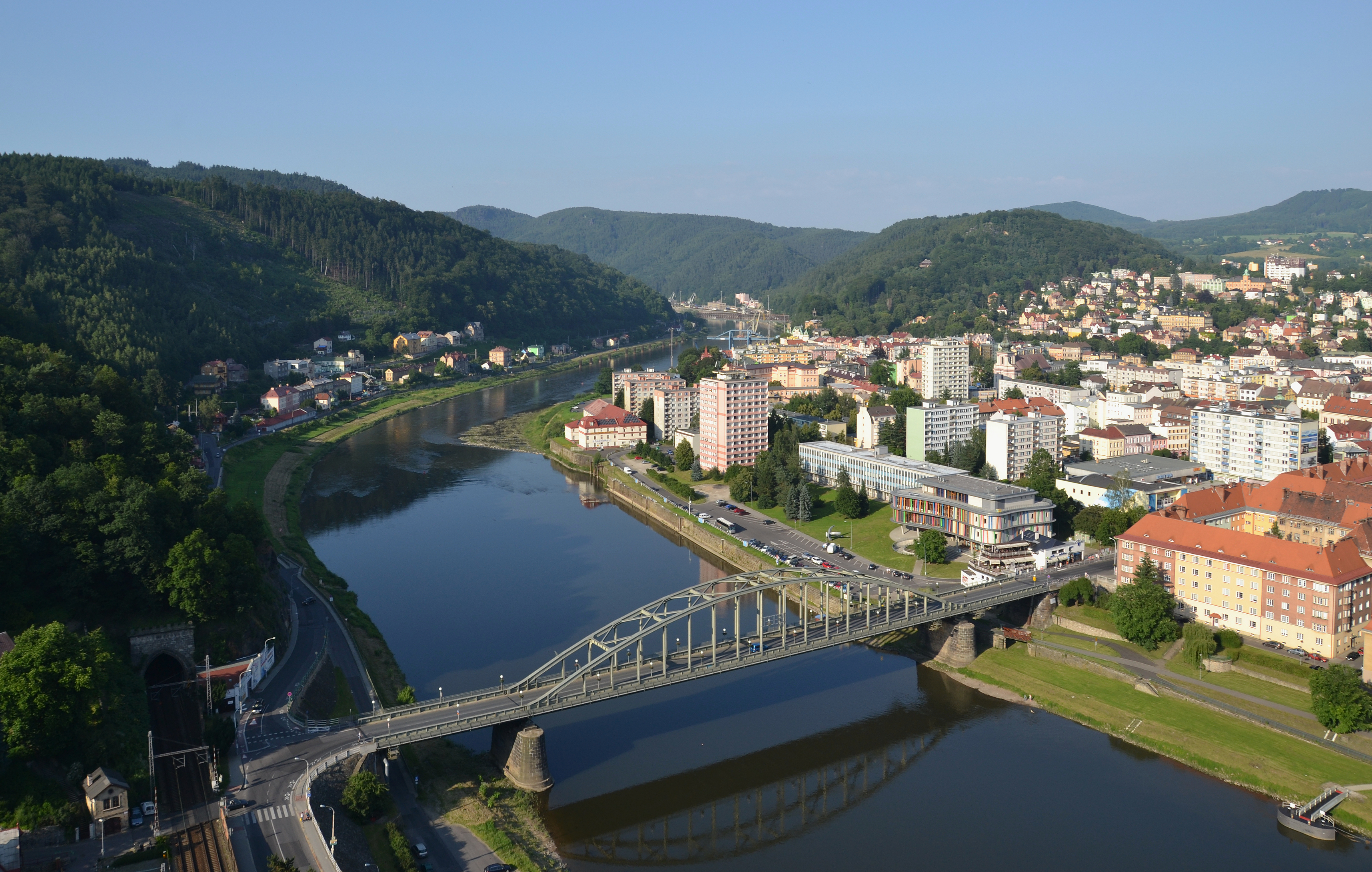 Děčín (Tetschen), city in the Czech Republic. View from Pastýřská stěna